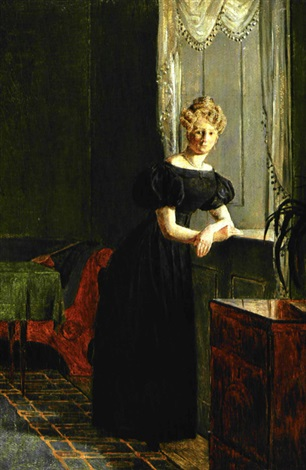 Sophie Købke, from 1835 Siphie Krohn, painted by her brother in the family's home at Kastellet in Copenhagen, Denmark.